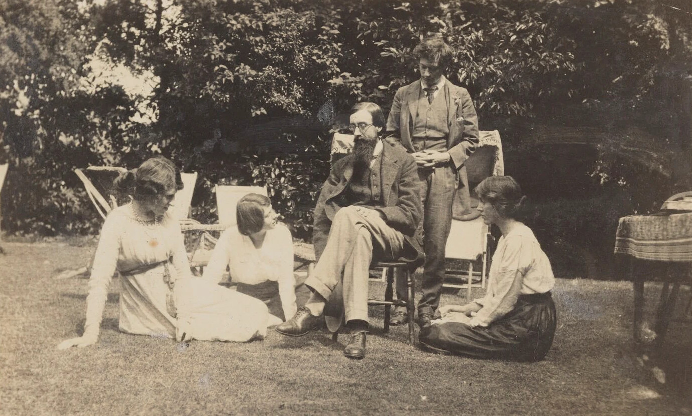 A group at Garsington Manor, country home of Lady Ottoline Morrell, near Oxford. Left to right: Lady Ottoline Morrell, Mrs. Aldous Huxley, Lytton Strachey, Duncan Grant, and Vanessa Bell.